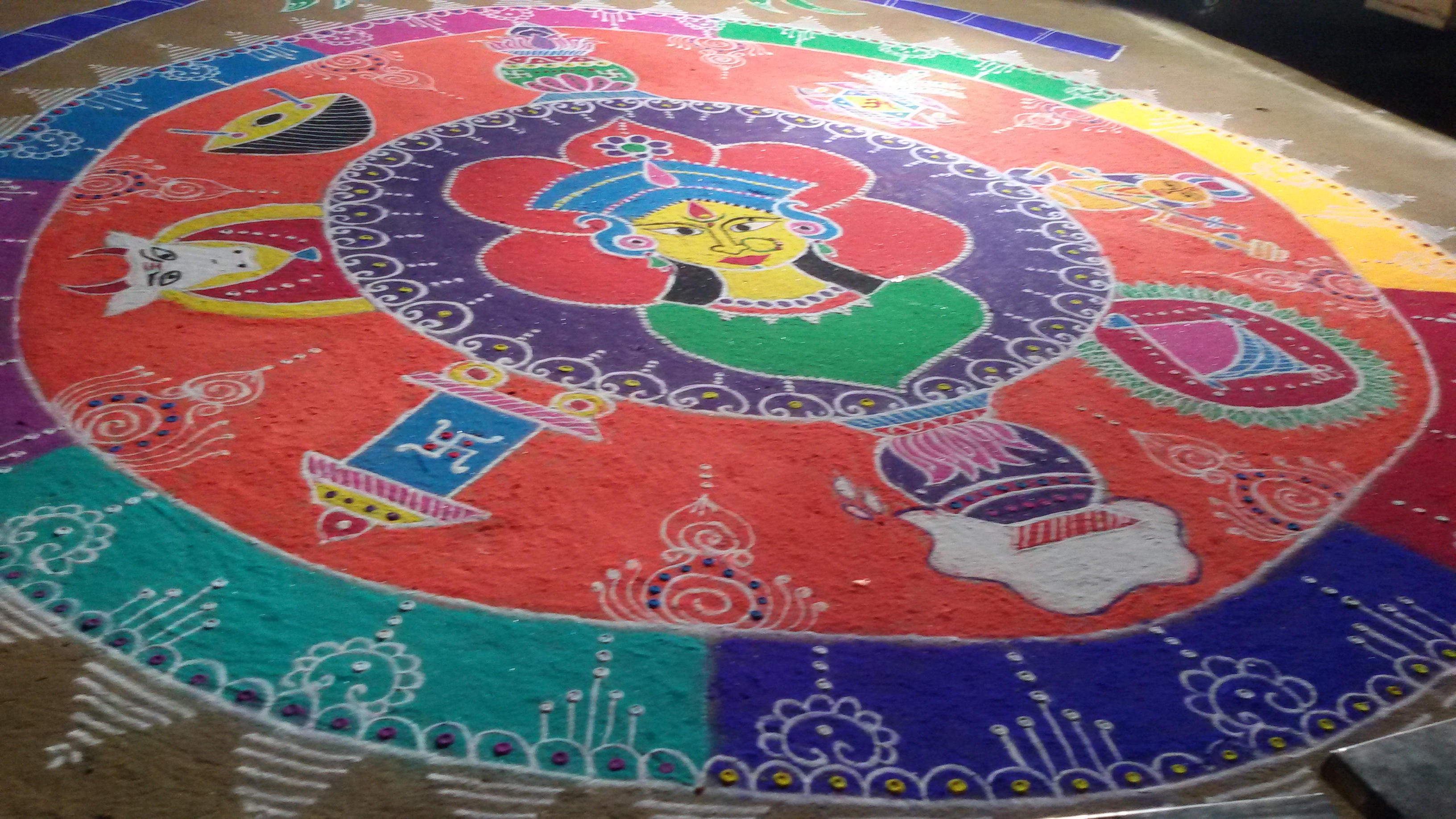 This describes the tradition of celebrating the festival in India